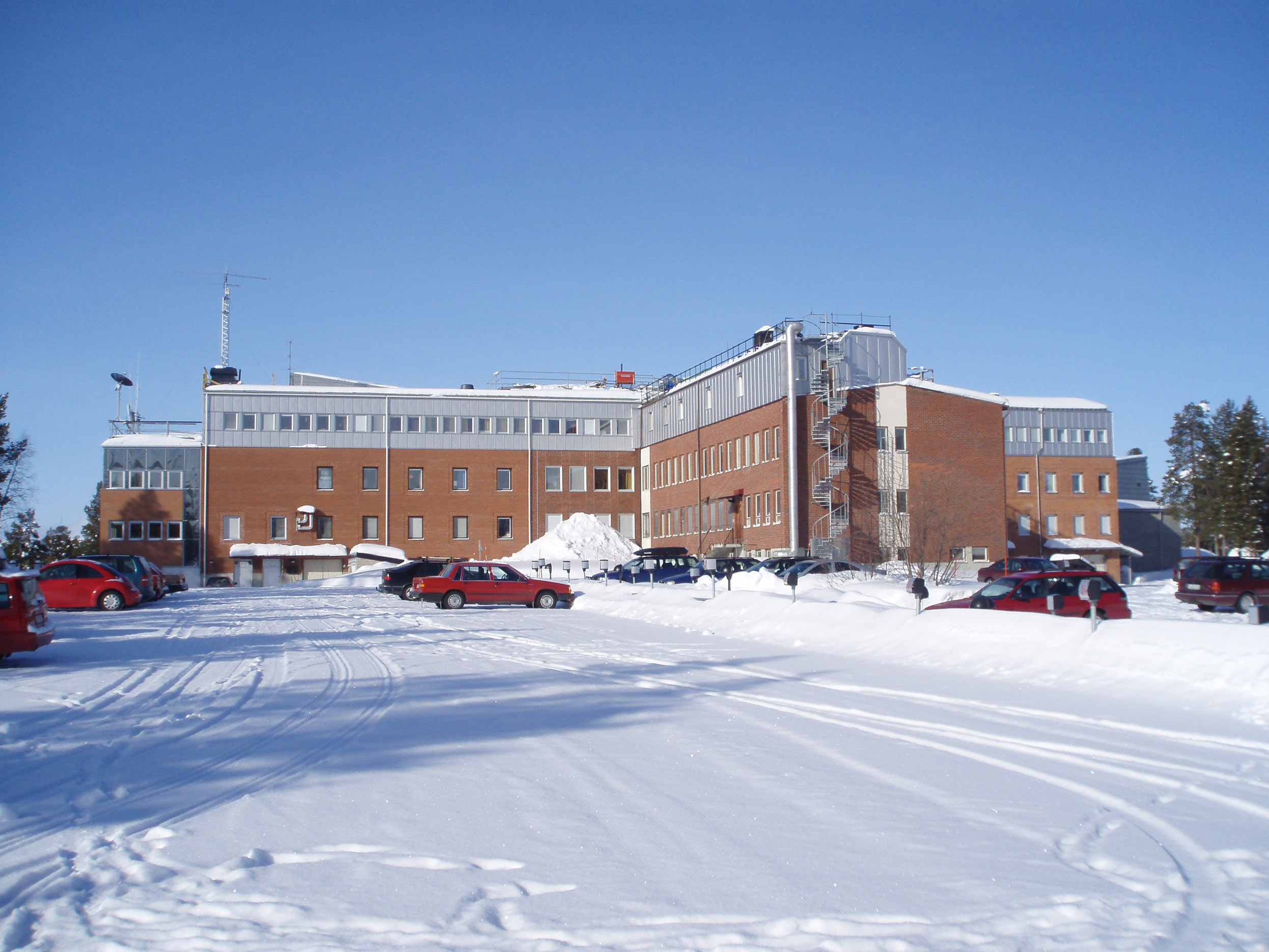 Department of Space Science (LTU) and Swedish Institute of Space Physics